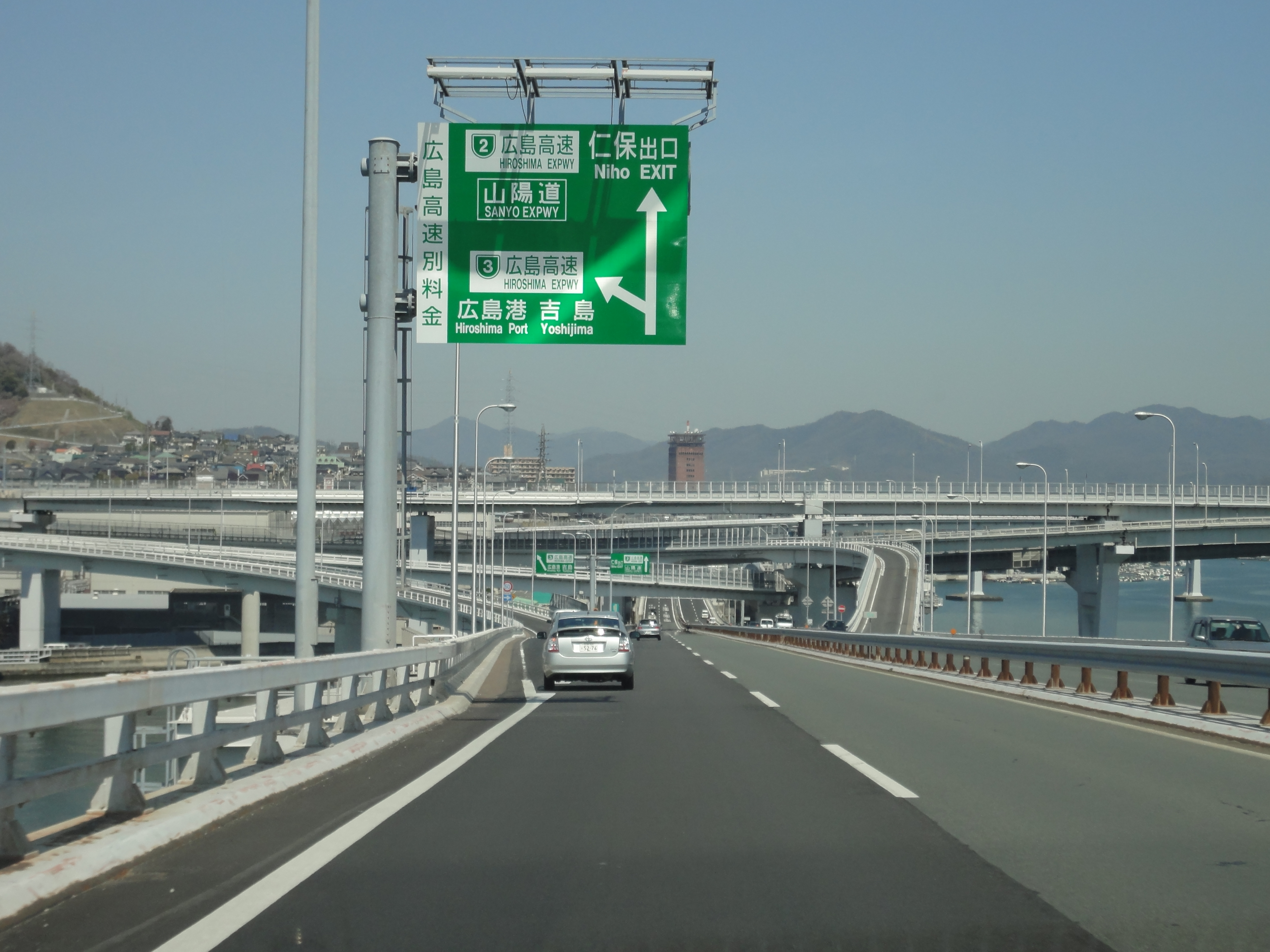 Niho Junction(Hiroshima) from Hiroshima-Kure Road.